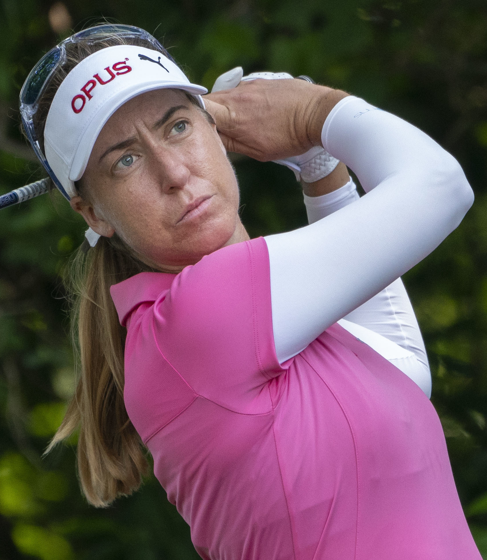 Pure Silk Championship 2019